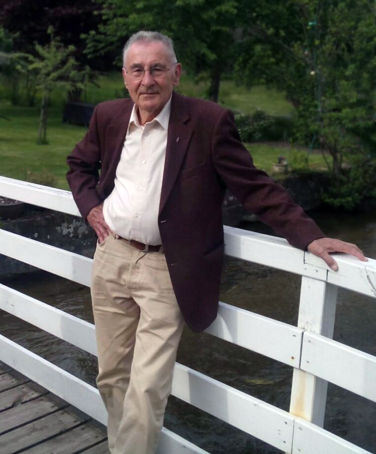 Portrait of Karl Schmider, a german composer